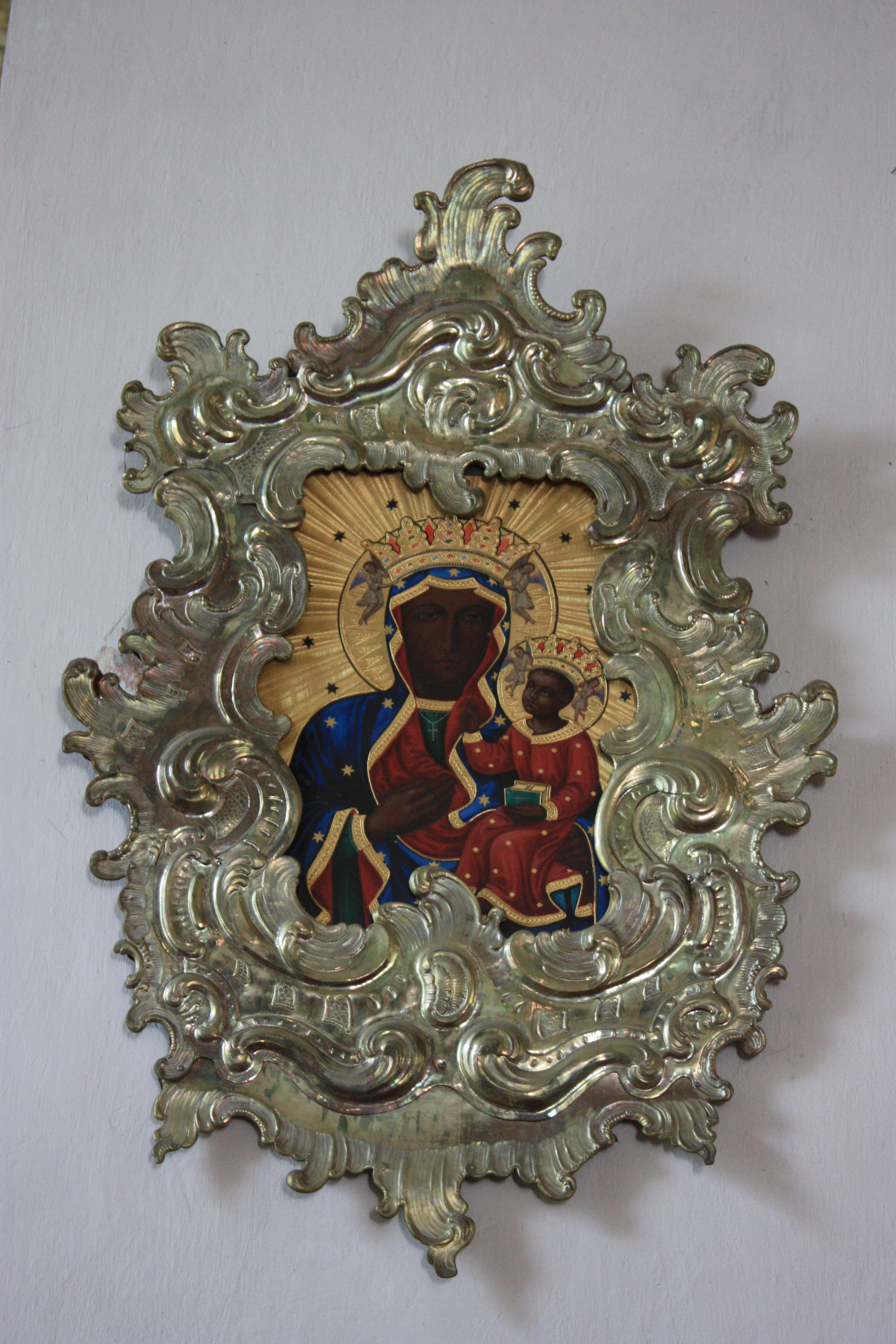 Monastery Ossiach - Black Madonna Community:Ossiach District:Feldkirchen State:Austria Country:Carinthia